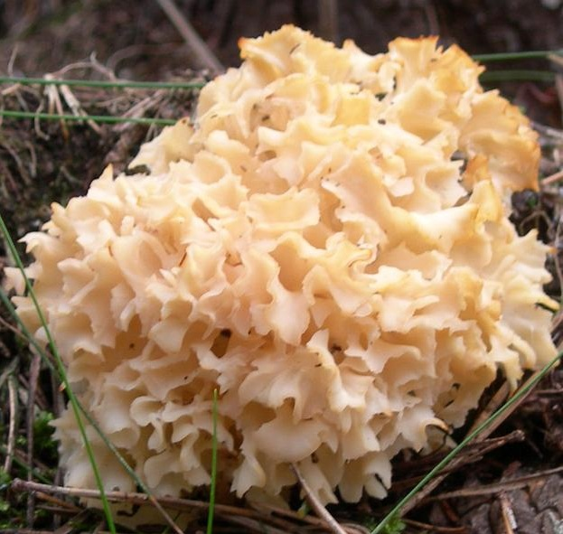 fungi